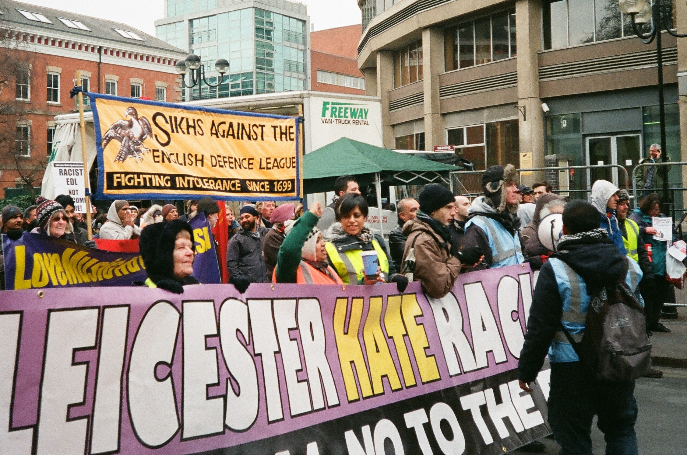 Demonstration in Leicester against the English Defence League